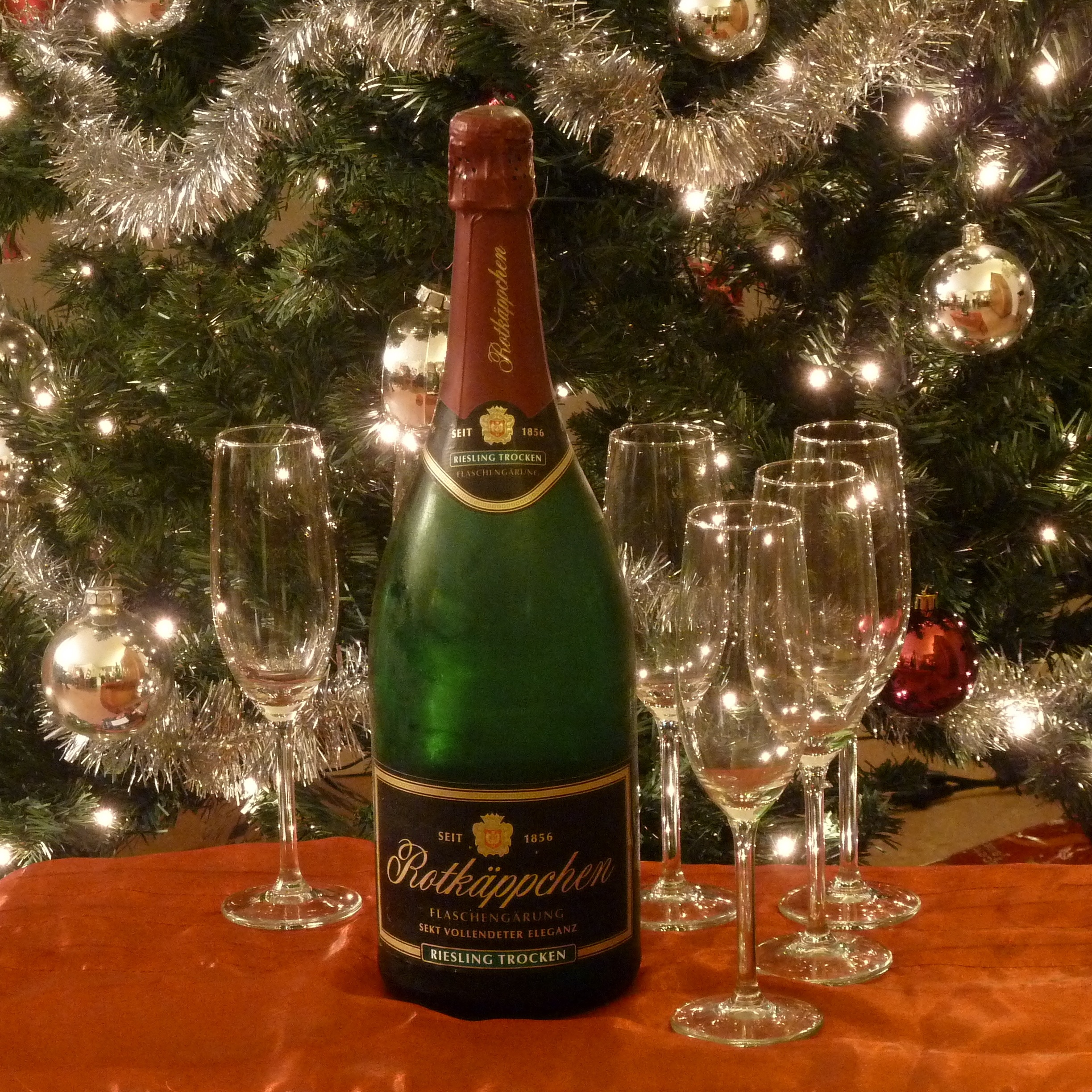 Rotkäppchen Sekt Riesling Trocken